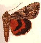 PLATE CC.